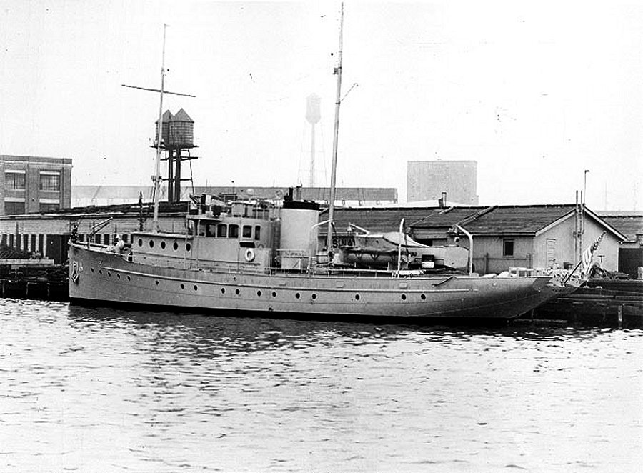 Stern view of Agate at Pier 10 of the Boston Navy Yard. On the opposite side of the pier is covered lighter YF-82.